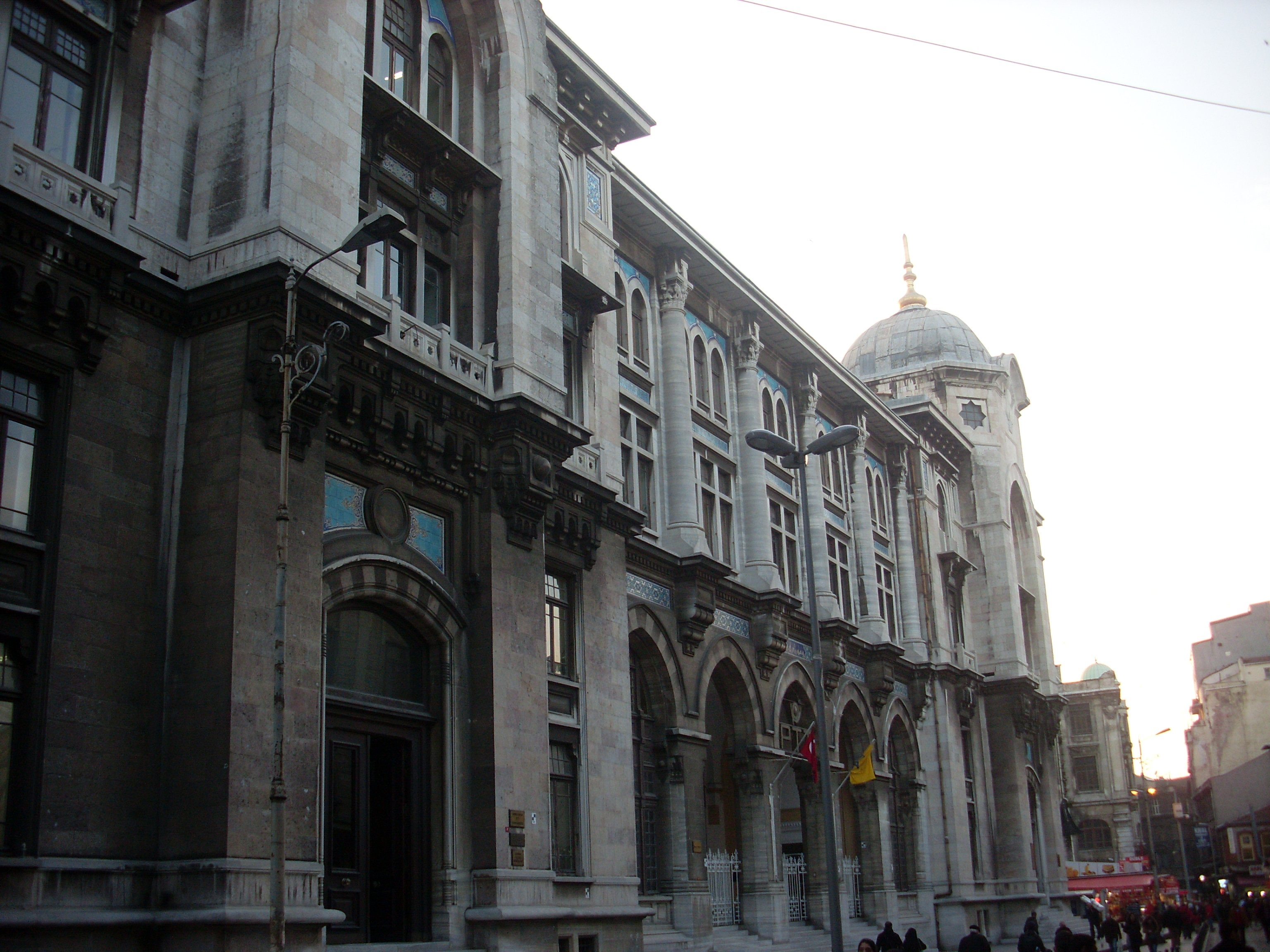 İstanbul Sirkeci Post Office 6